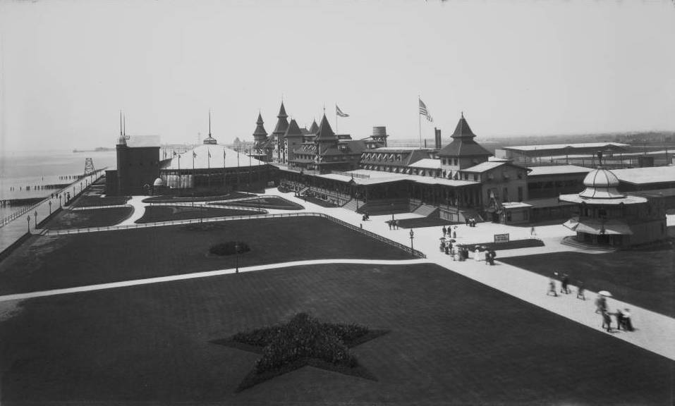 Accession Number: 1977:0144:0059MP Maker: George P. Hall & Son (American, active 1875–1914) Title: View of Manhattan Beach Hotel, Coney Island Date: ca. 1905 Medium: gelatin silver print printed 1977, from original negative Dimensions: 27.2 x 45.0 cm. George Eastman House Collection General information about the George Eastman House Photography Collection is available at For information on obtaining reproductions go to